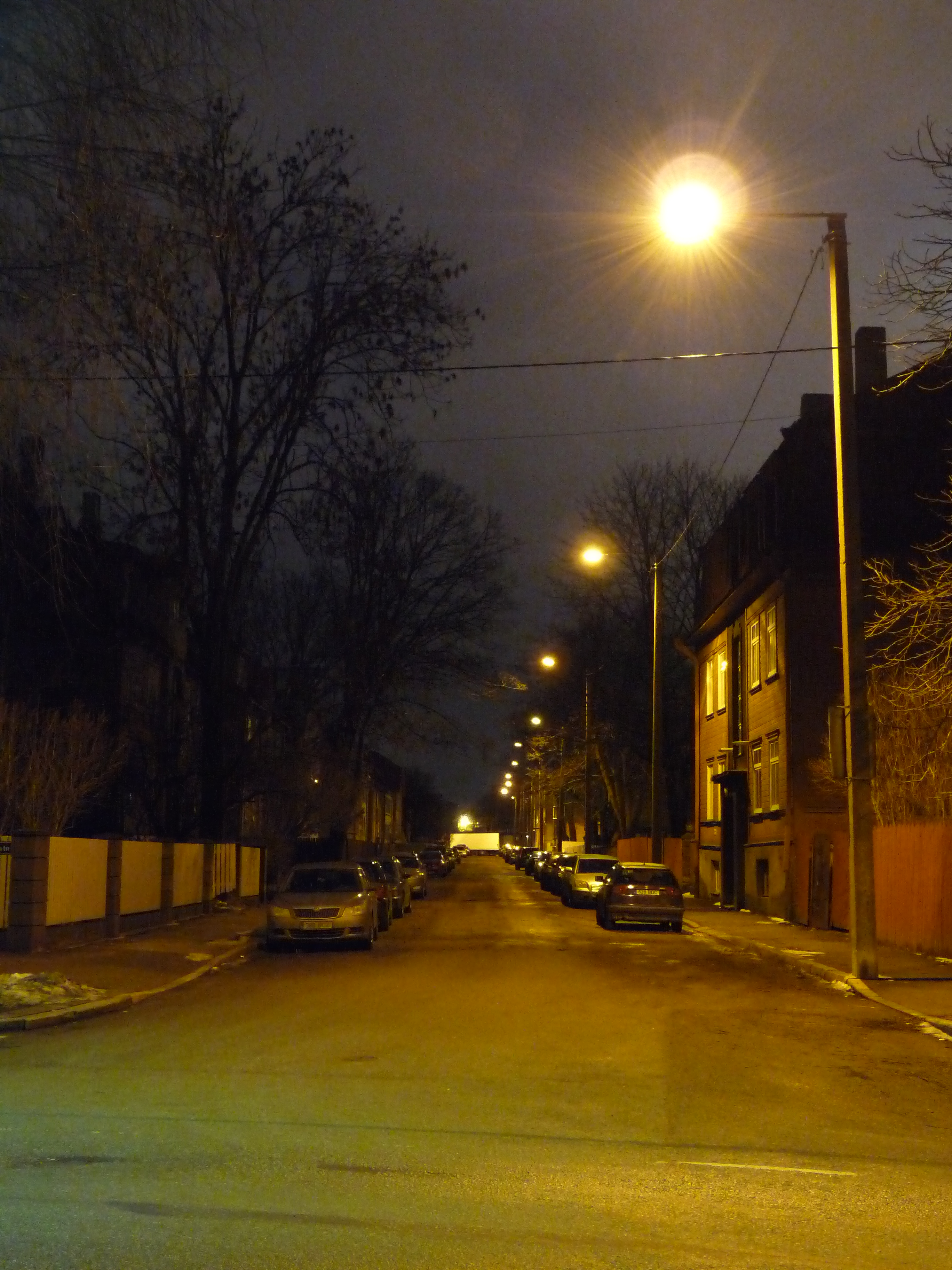 Saue street in Tallinn, Estonia